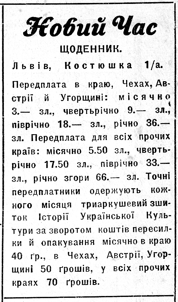 Advertisement for newspaper "Novy Chas"